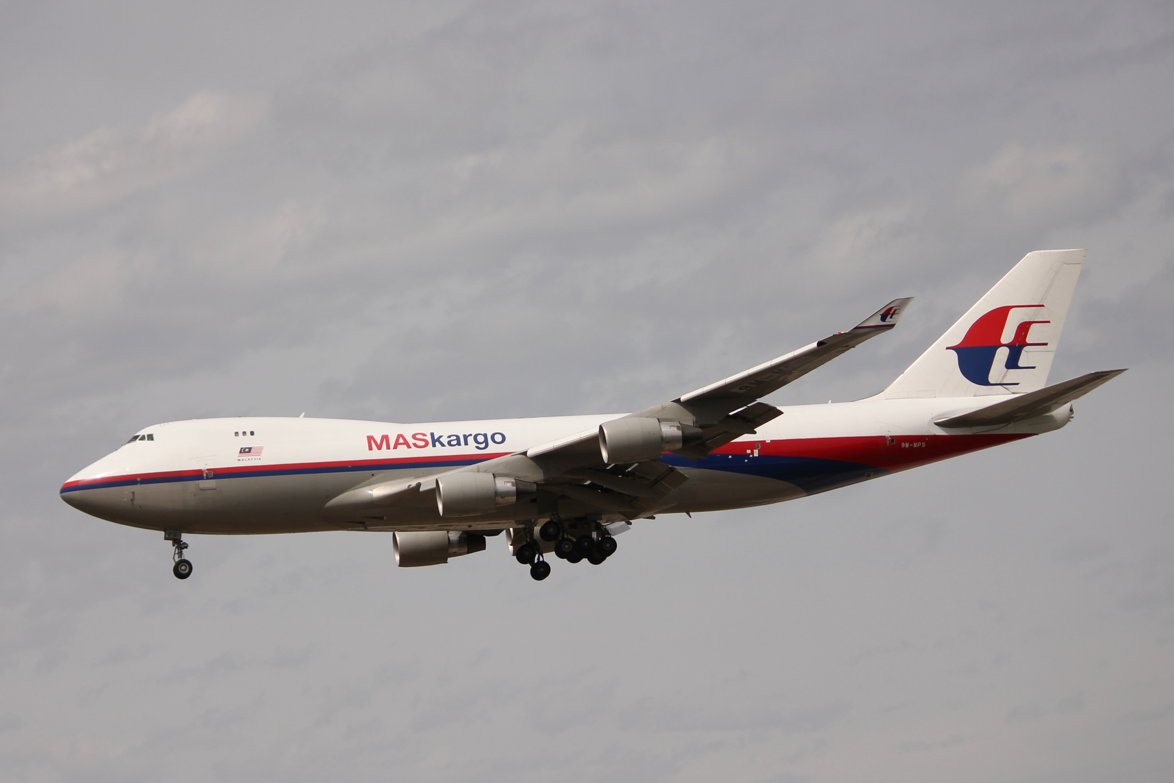 A 747-400F of MASkargo landing at Frankfurt Airport